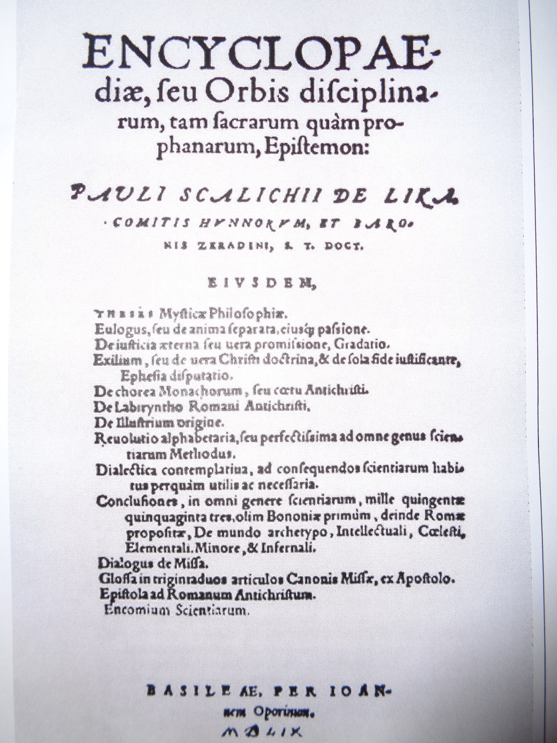 Pavao Skalić (Latin: Paulus Scalichius), Croatian encyclopedist, humanist and adventurer: "Encyclopaediae, seu orbis disciplinarum, tam sacrarum quam prophanarum, epistemon" - title page; published in Basle in 1559.